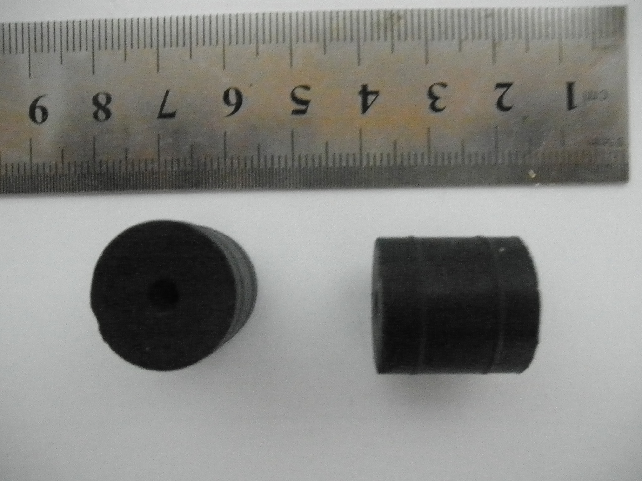 Cylindrical rubber coated metal bullet